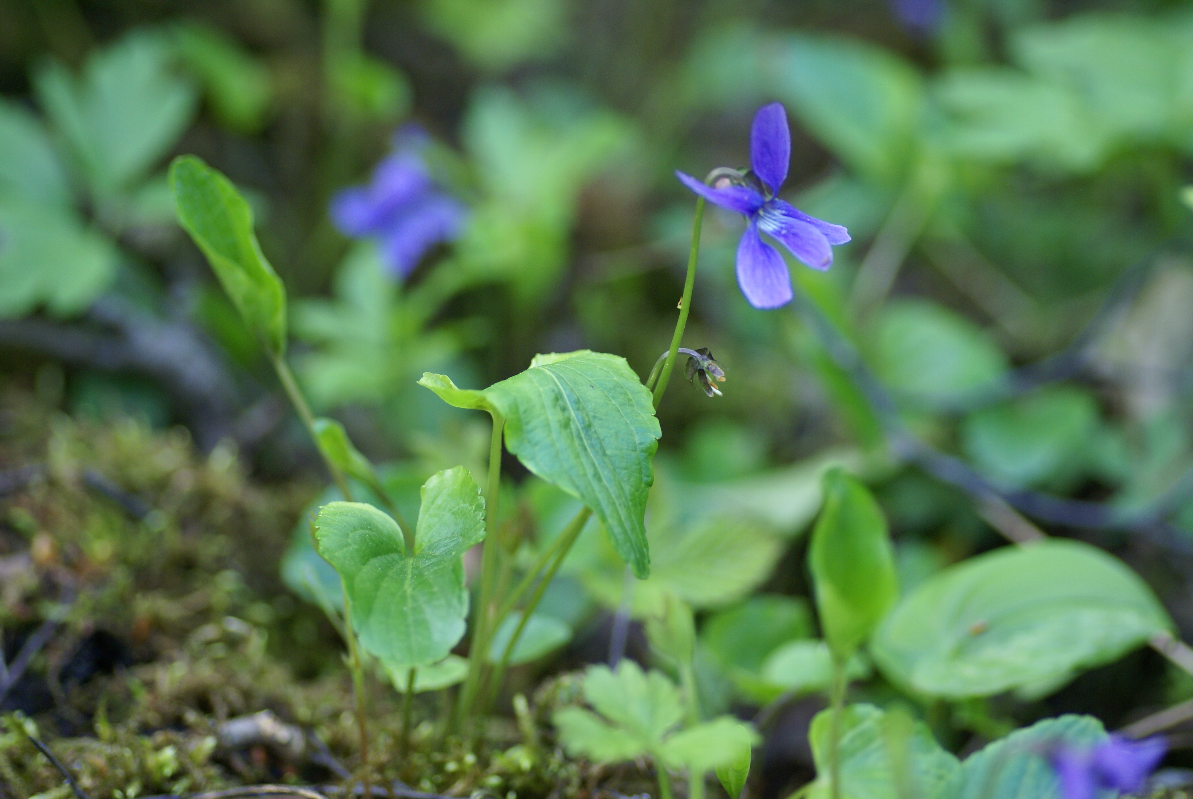 Plant species Viola uliginosa in Swedish province Uppland